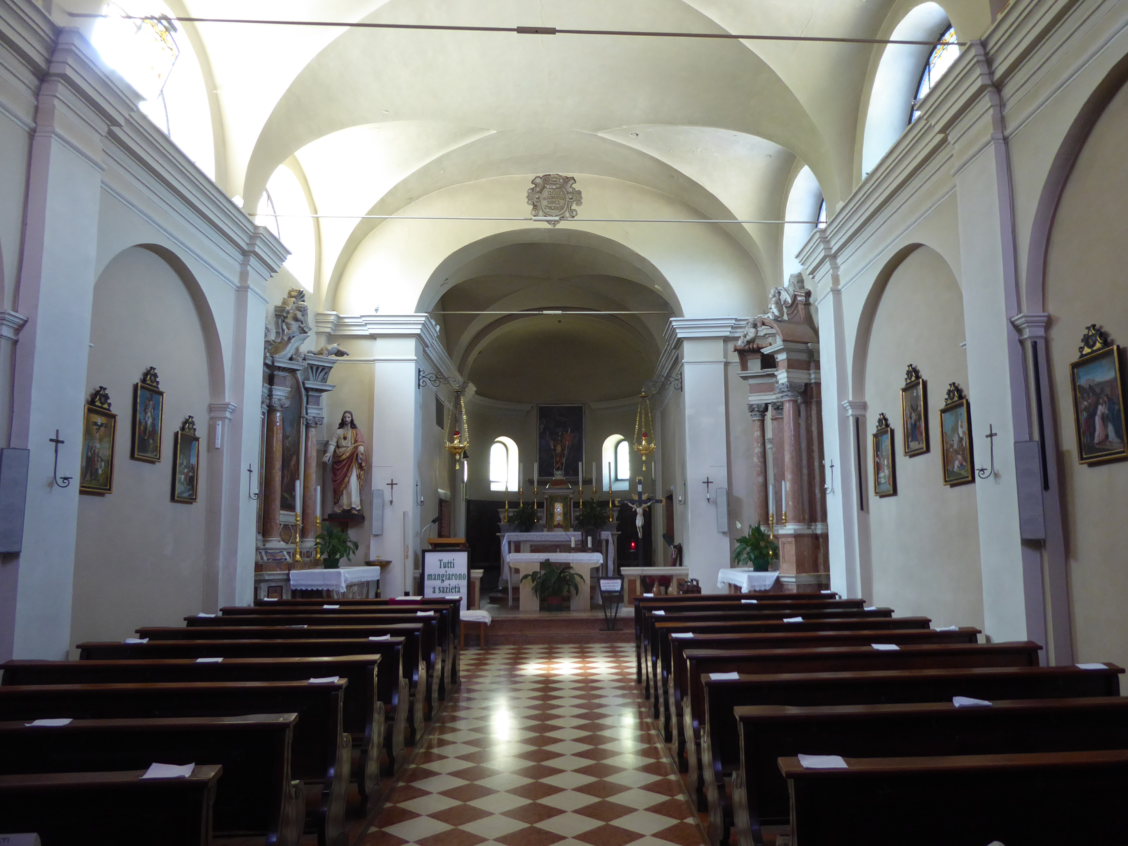 Marano (Isera, Trentino, Italy), saint Pancras church - Interior